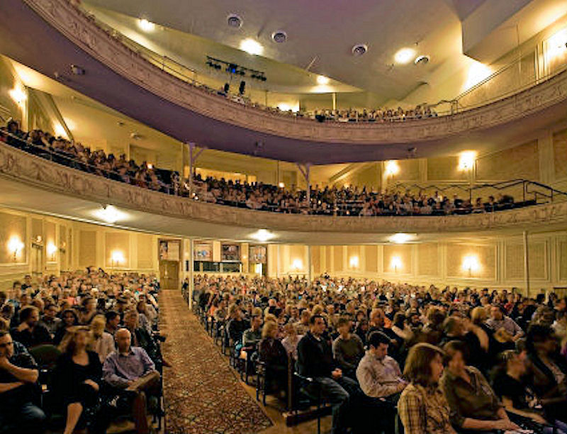 2013 - Miller Symphony Hall - Auditorium